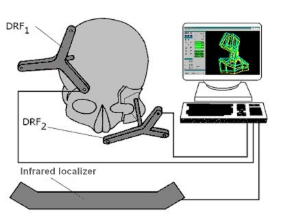 Scheme of the SSN principles